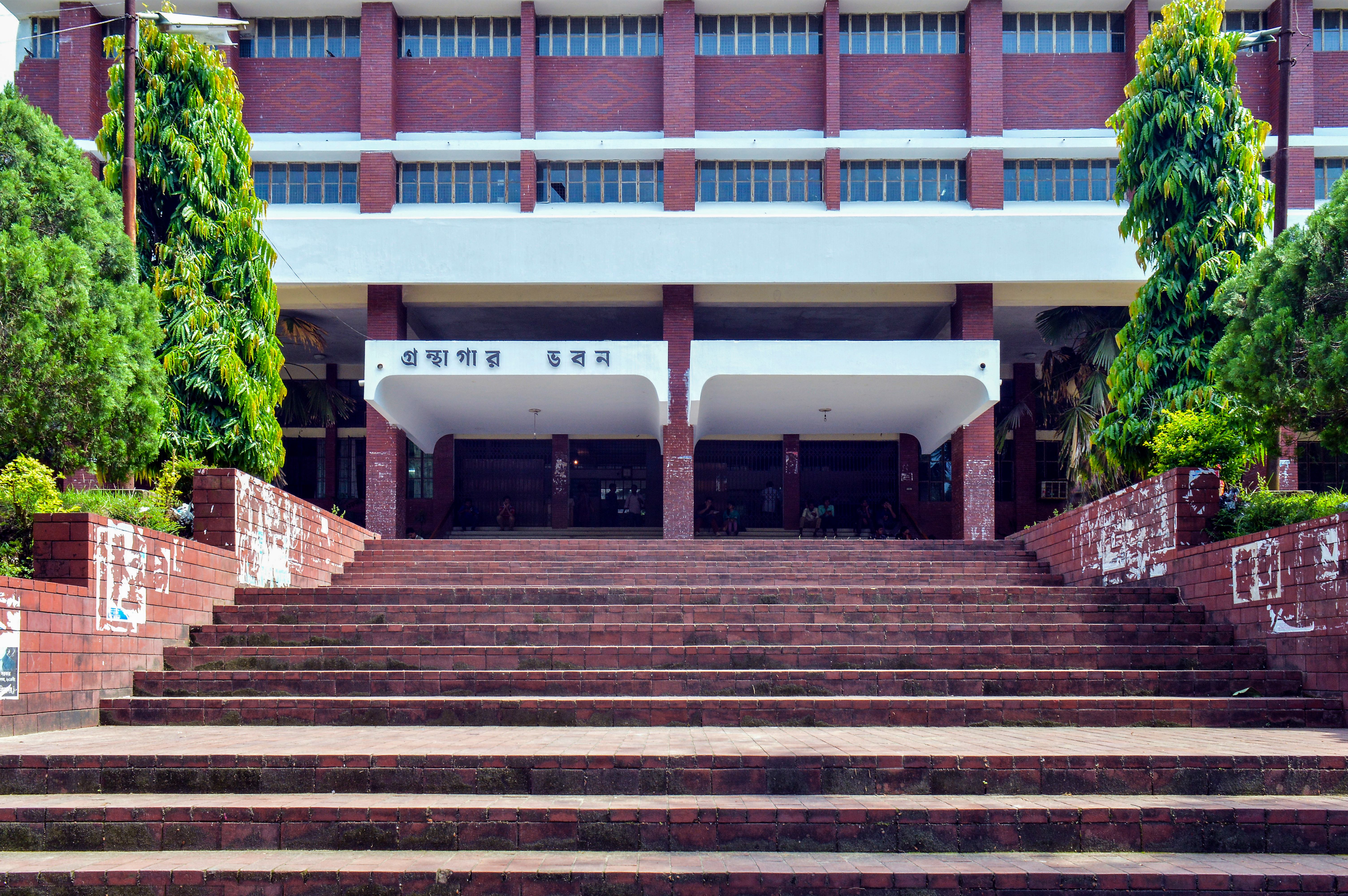 Chittagong University Library (East-West front view), the largest subscription library in Chittagong